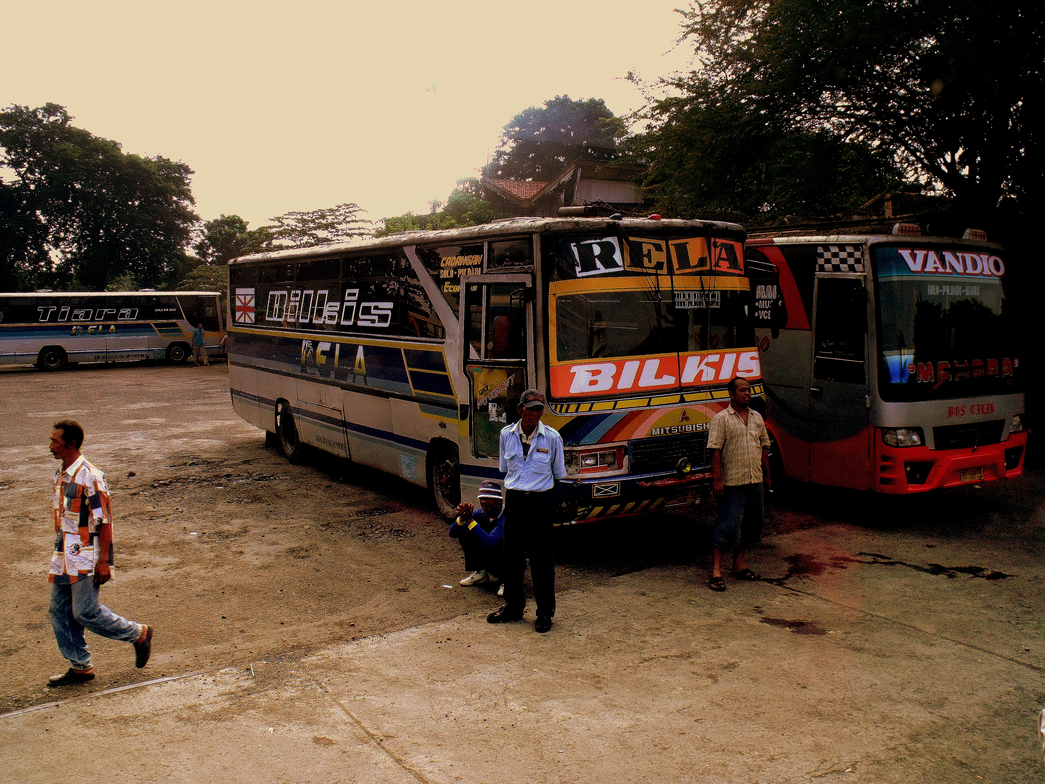 Solo city bus station central java indonesia